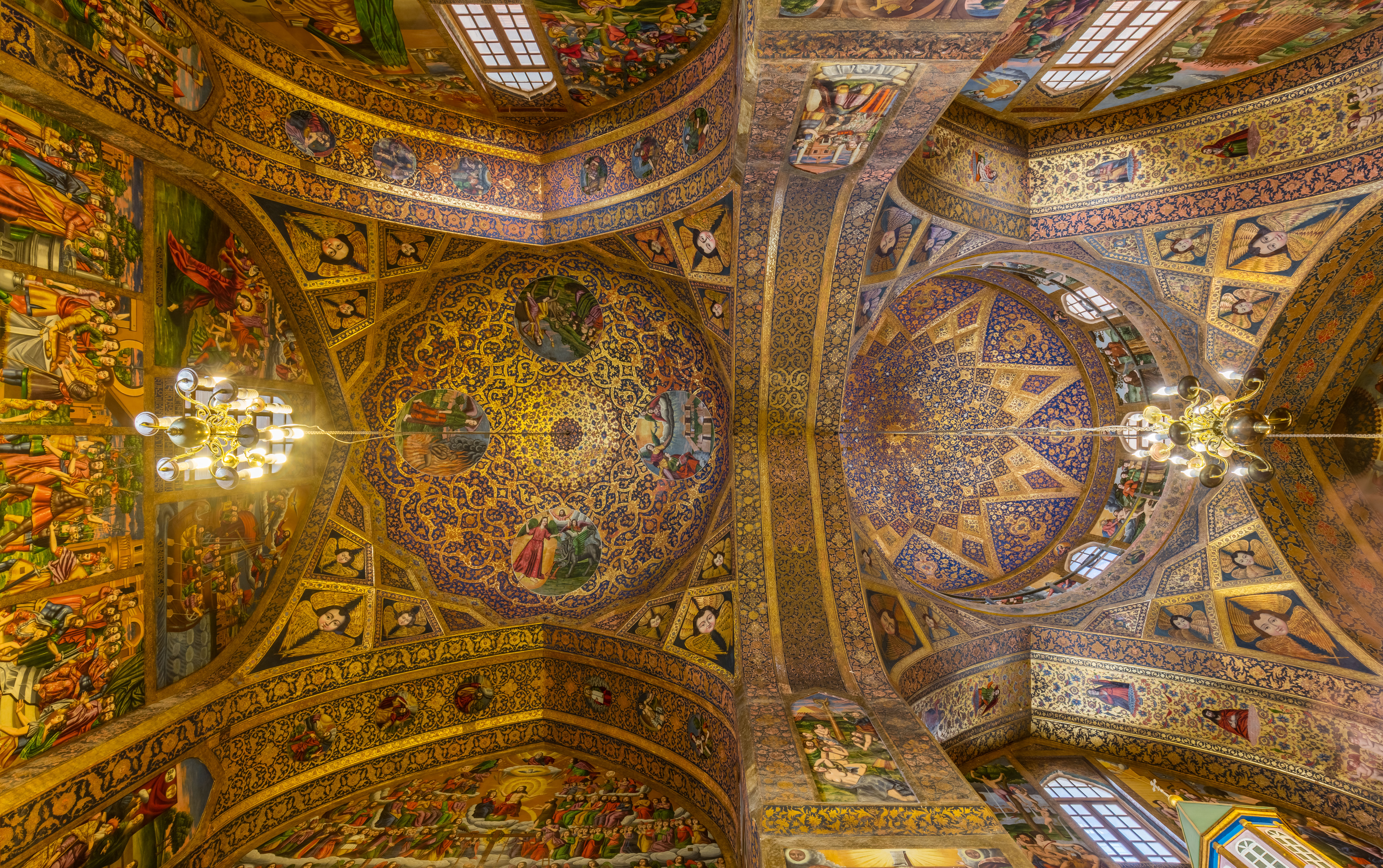 View of the rich ceiling of the Vank Cathedral in Isfahan, possibly the most impressive christian temple in the Islamic Republic of Iran. The construction of the Armenian Apostolic church, formaly known as Holy Savior Cathedral, began in 1606 and was finished between 1655 and 1664. The temple was dedicated to the hundreds of thousands of Armenian deportees that were resettled by Shah Abbas I during the Ottoman War of 1603-1618.